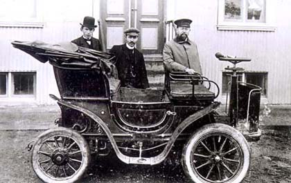 The first automobile in Iceland, imported in 1904. The men are from left to right: Tómas Jónsson, Þorkell Þ. Clementz, the driver of the car, and Ditlev Thomsen, the owner of the car.